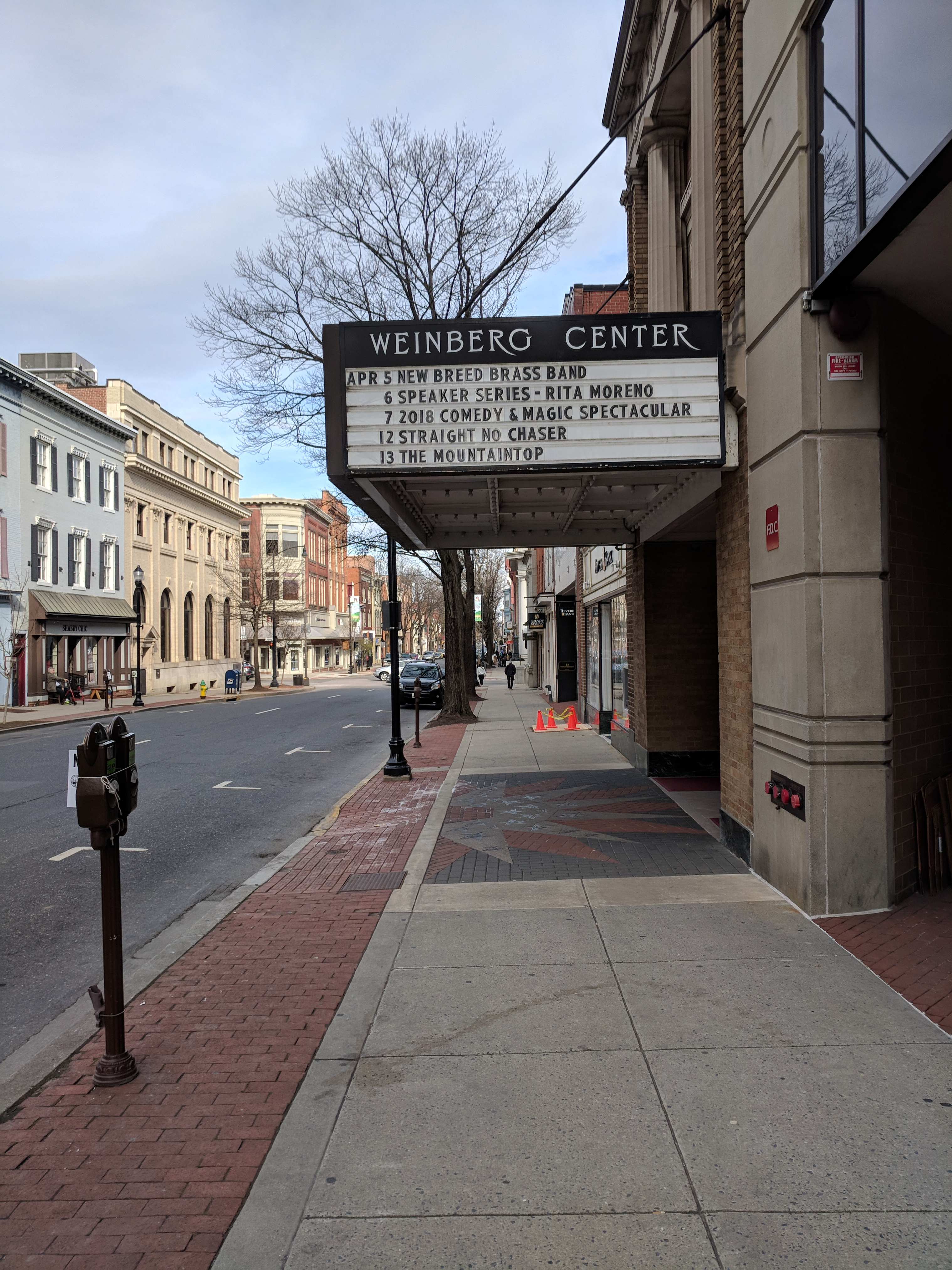 Weinberg Center for the Arts in downtown Frederick, Maryland.